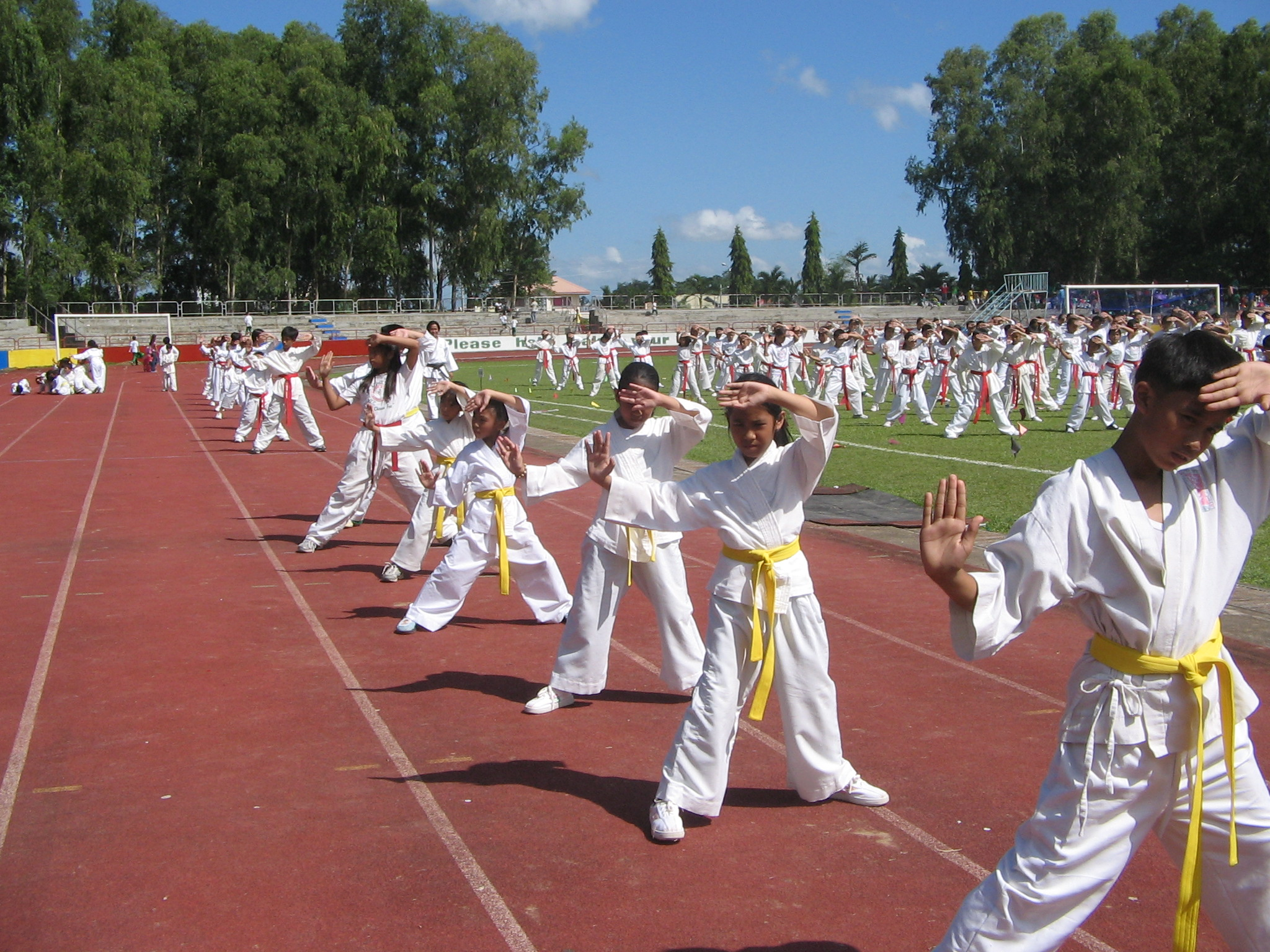 JJS Karate Kids during the playground demonstration at Panaad Stadium in Bacolod City